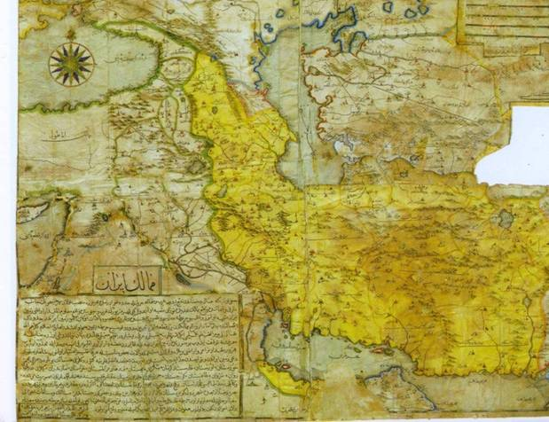 The map of the Persian gulf in 1729 ottoman it is in public domain